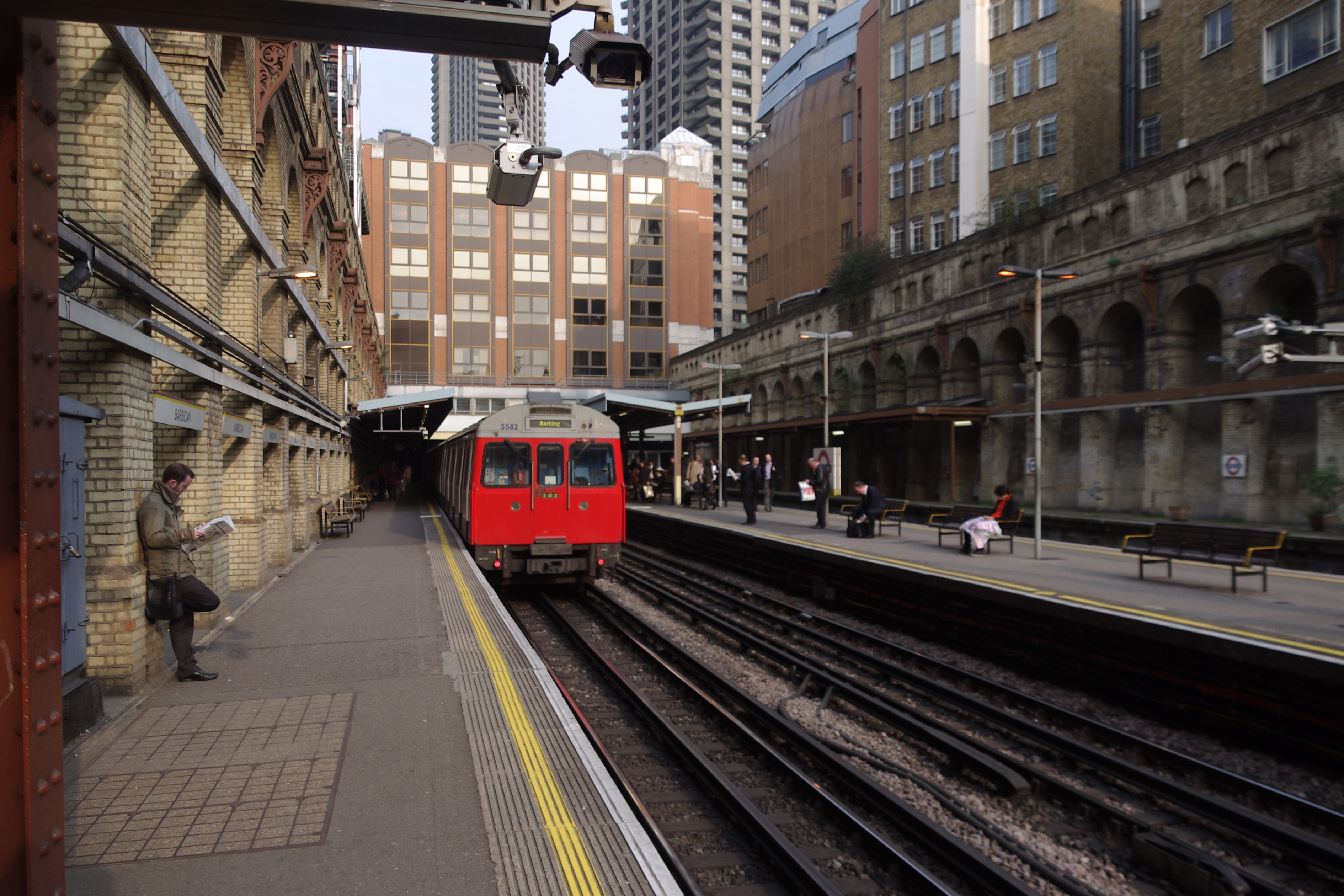 A westbound London Underground service departs Barbican.